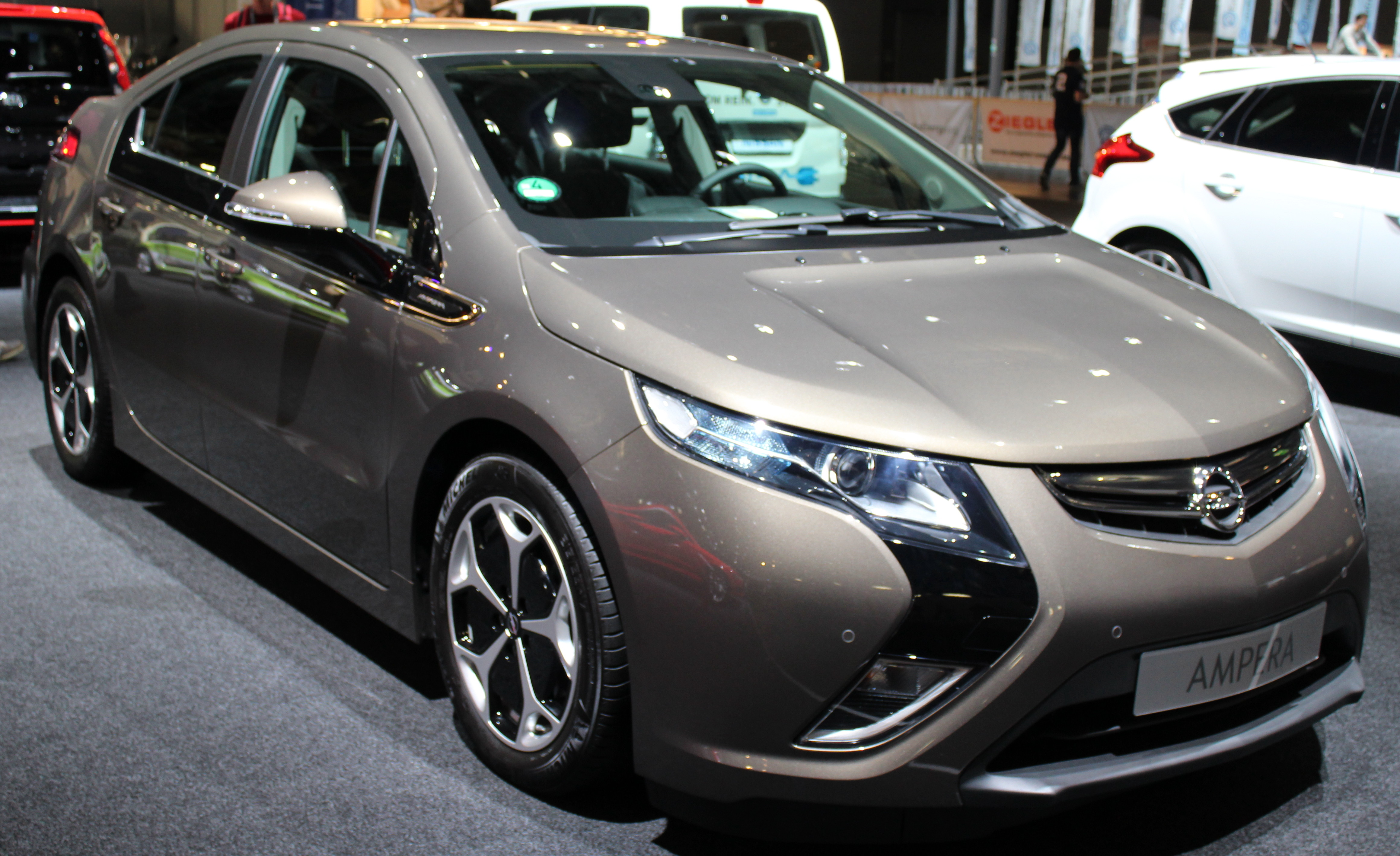 Passenger vehicles being displayed in 2015 International Motor Show Germany.